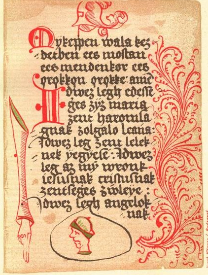 169th page of the Peer-Codex (the beginning of the 16th century mek.oszk )